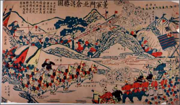 Nianhua print: Dong Fuxiang's victory Dong Fuxiang's victory at Beicang A great victory was achieved on August 1 (converted from the lunar calendar) on the outskirts of Tianjin by Dong Fuxiang's forces, presumably harrying the foreign forces that were assembling there to march to Peking and relieve the siege. The joint force took time to assemble (the British were concurrently preoccupied with the Boer War) and even longer to organise itself due to internal rivalries. When it did set out, on August 4, it moved swiftly and decisively through Boxer and imperial army resistance.